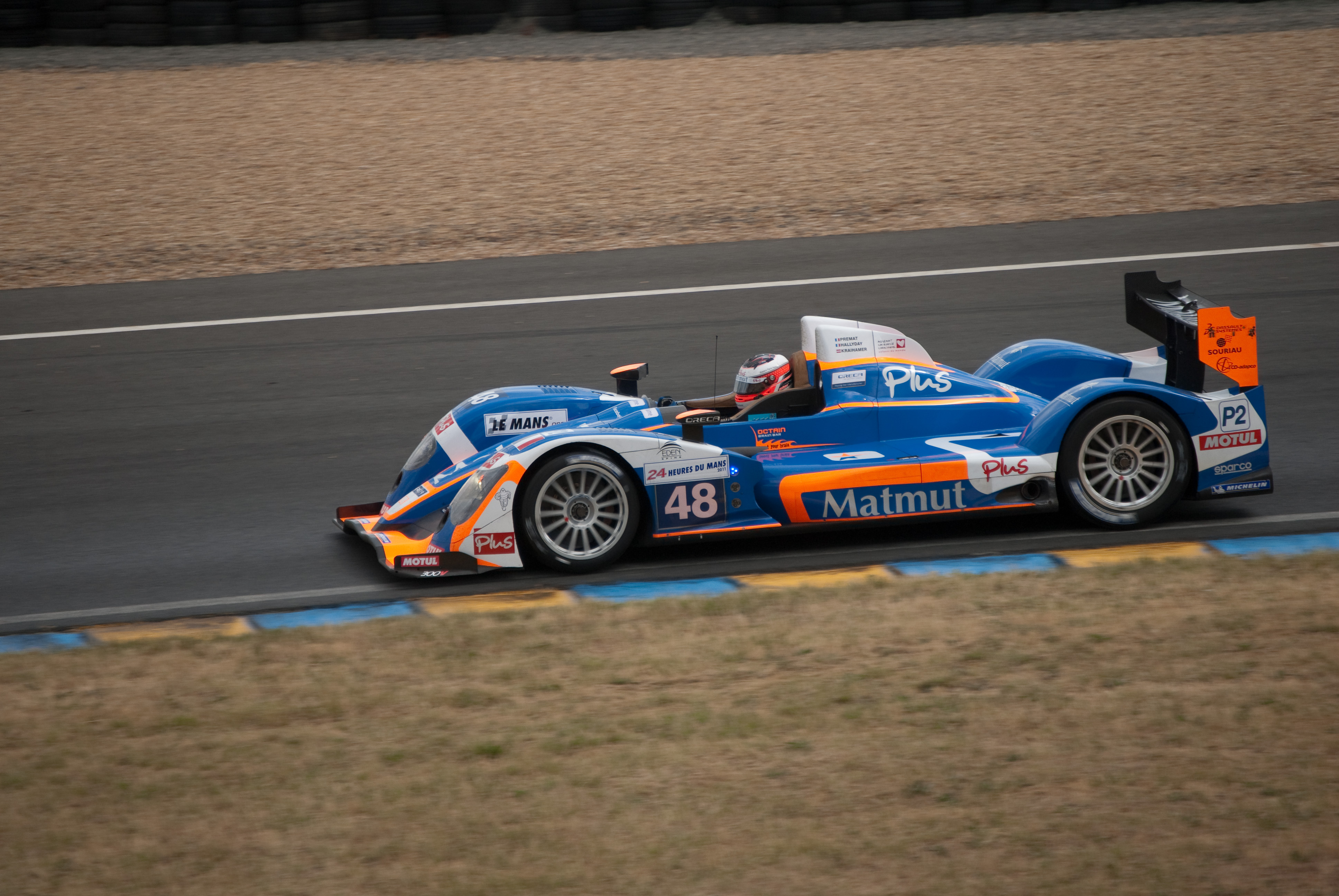 Oreca 03 Nissan from Team Oreca Matmut at the 24 hour race in Le Mans 2011, did not finish because of an accident in lap 200